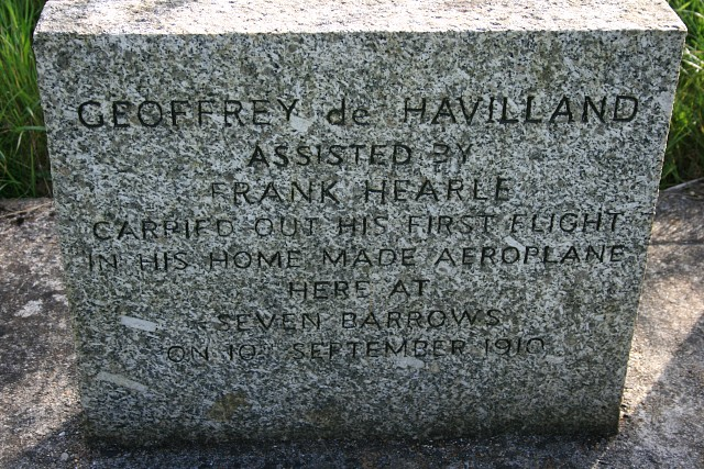 Monument to Geoffrey de Havilland This marble monument lies beside the Wayfarer's Walk, not far from the A34. The proximity of the road - admittedly rather quieter in 1910 - and the gently undulating landscape make this seem an unlikely spot for a pioneering aviator. Indeed it wasn't wholly a success... Though the inscription doesn't make it clear, this is the spot where de Havilland crashed his first plane - on its maiden flight. It had taken him two years to build.